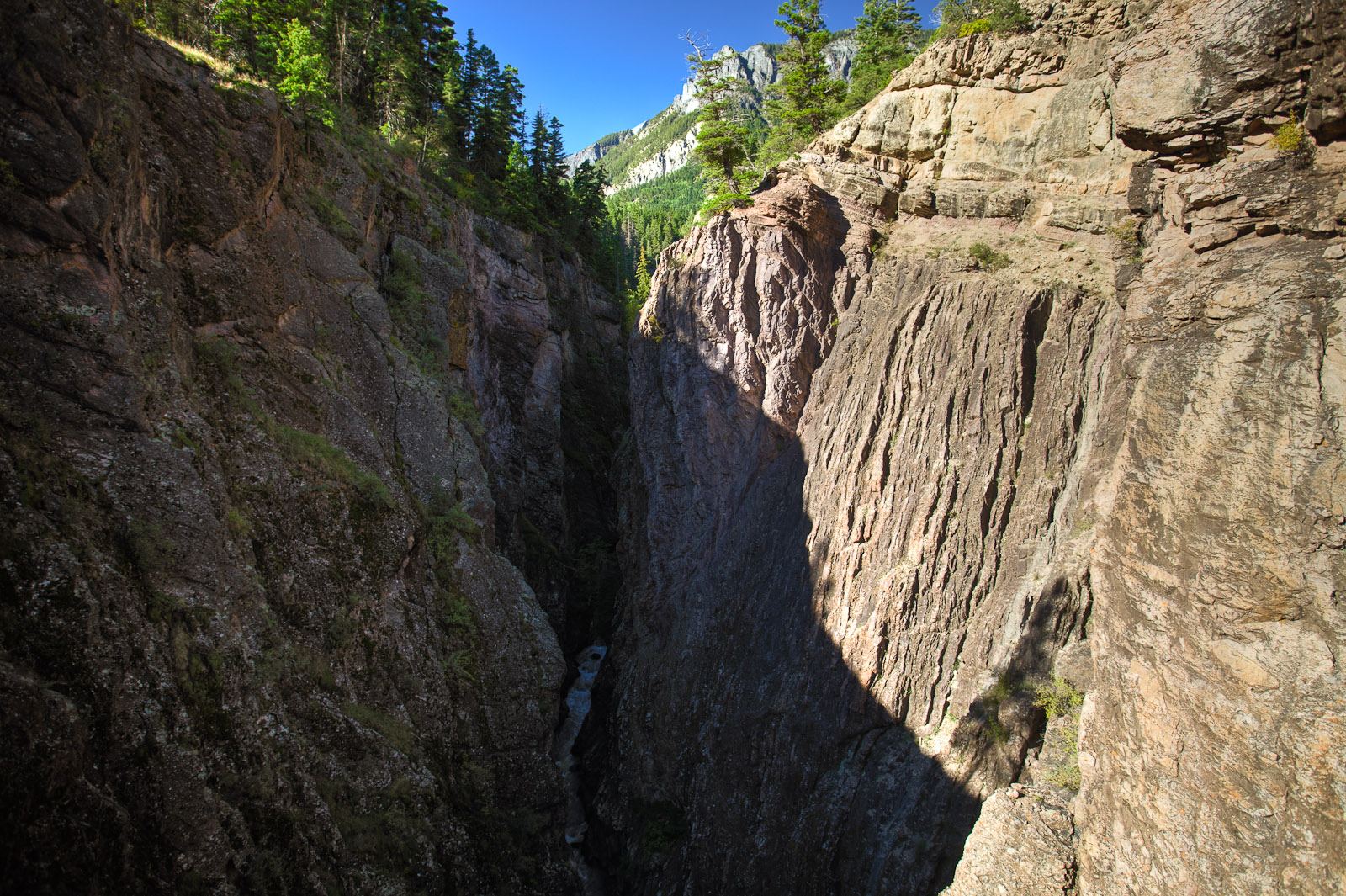 Box Cañon Falls, Ouray CO